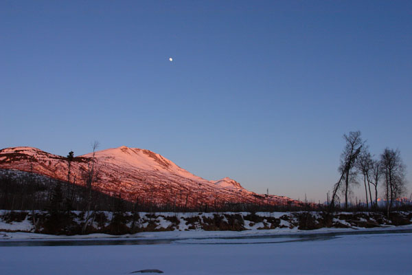 Erin McKittrick, Ground Truth Trekking, own work